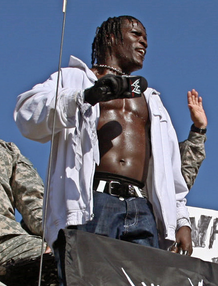 Just R Truth